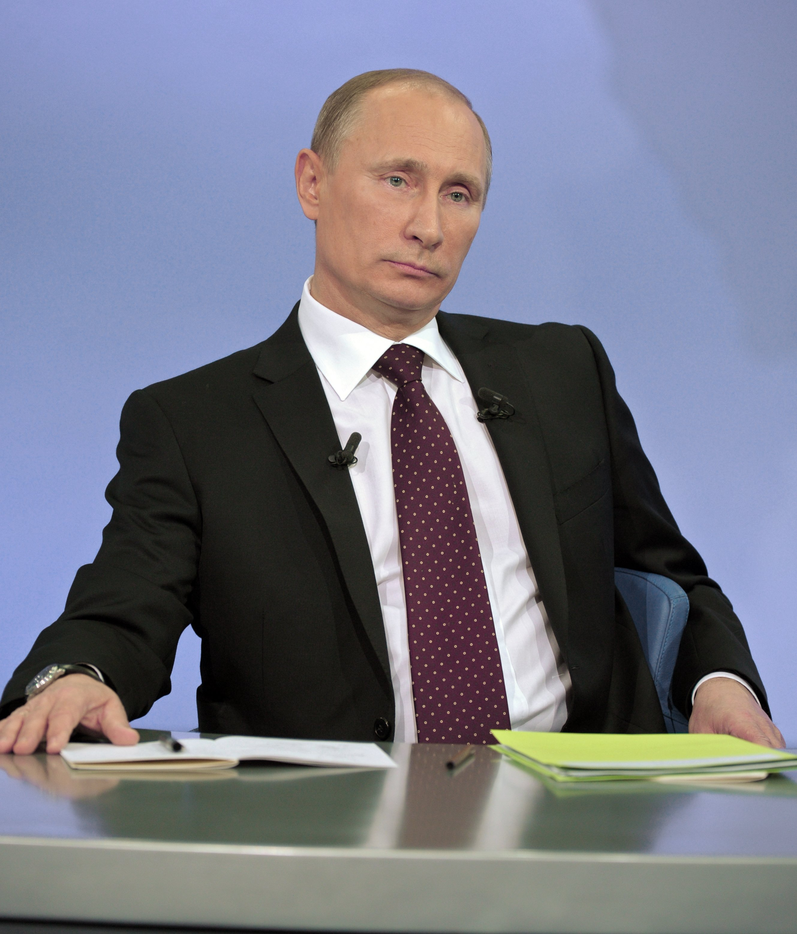 Official portrait of Vladimir Putin.